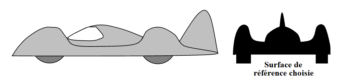 The reference area chosen as the reference is here virtual but it is still representative.